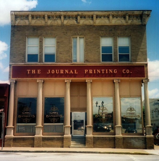 The Journal Printing Company building in Kirksville, Adair County, Missouri. Constructed in 1905, it is listed on thr National Register of Historic Places. It has been repurposed as a banquet hall and meeting room in recent years. Photo courtesy of Carol Baier via Flickr.